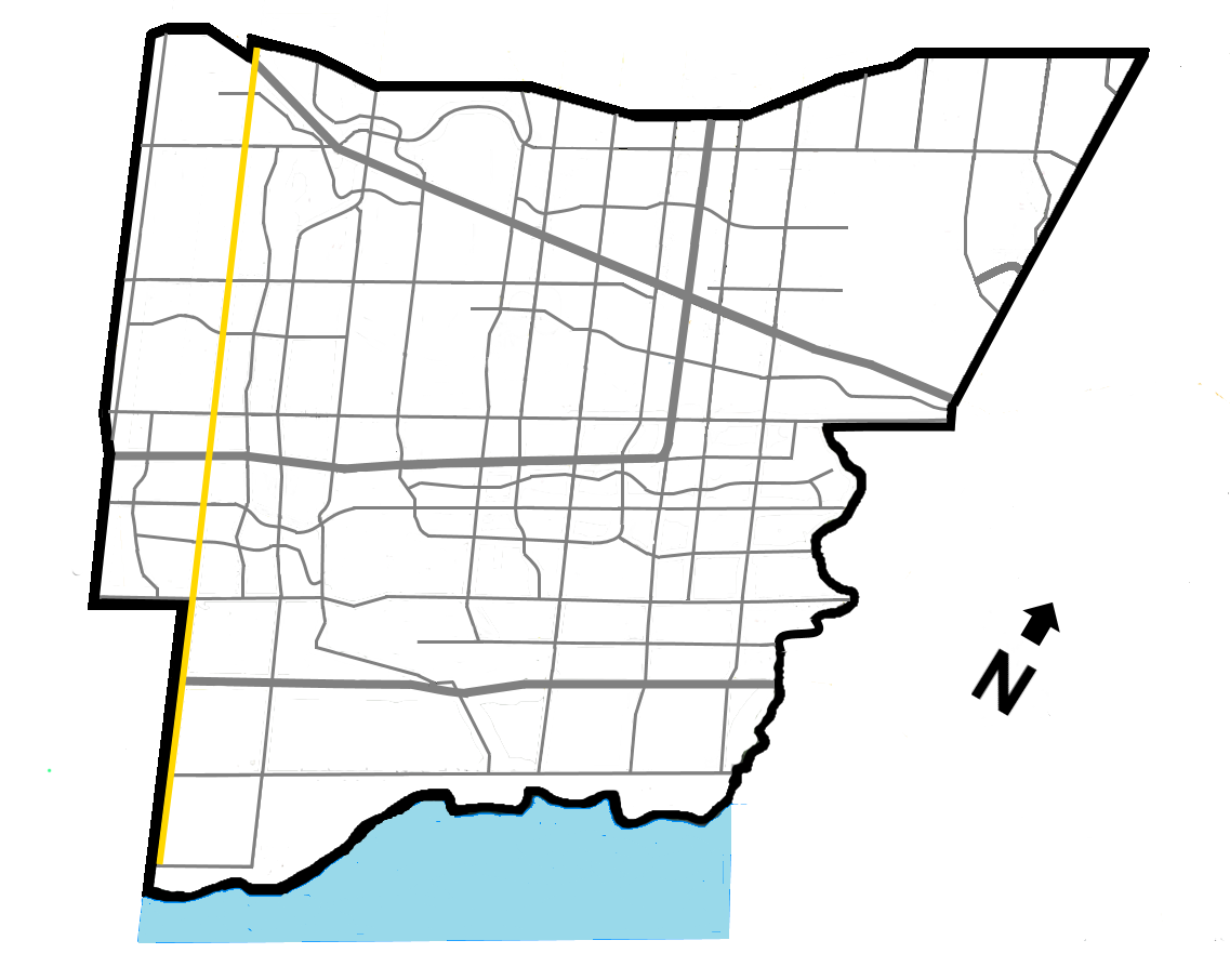 Winston Churchill Blvd. within Mississauga